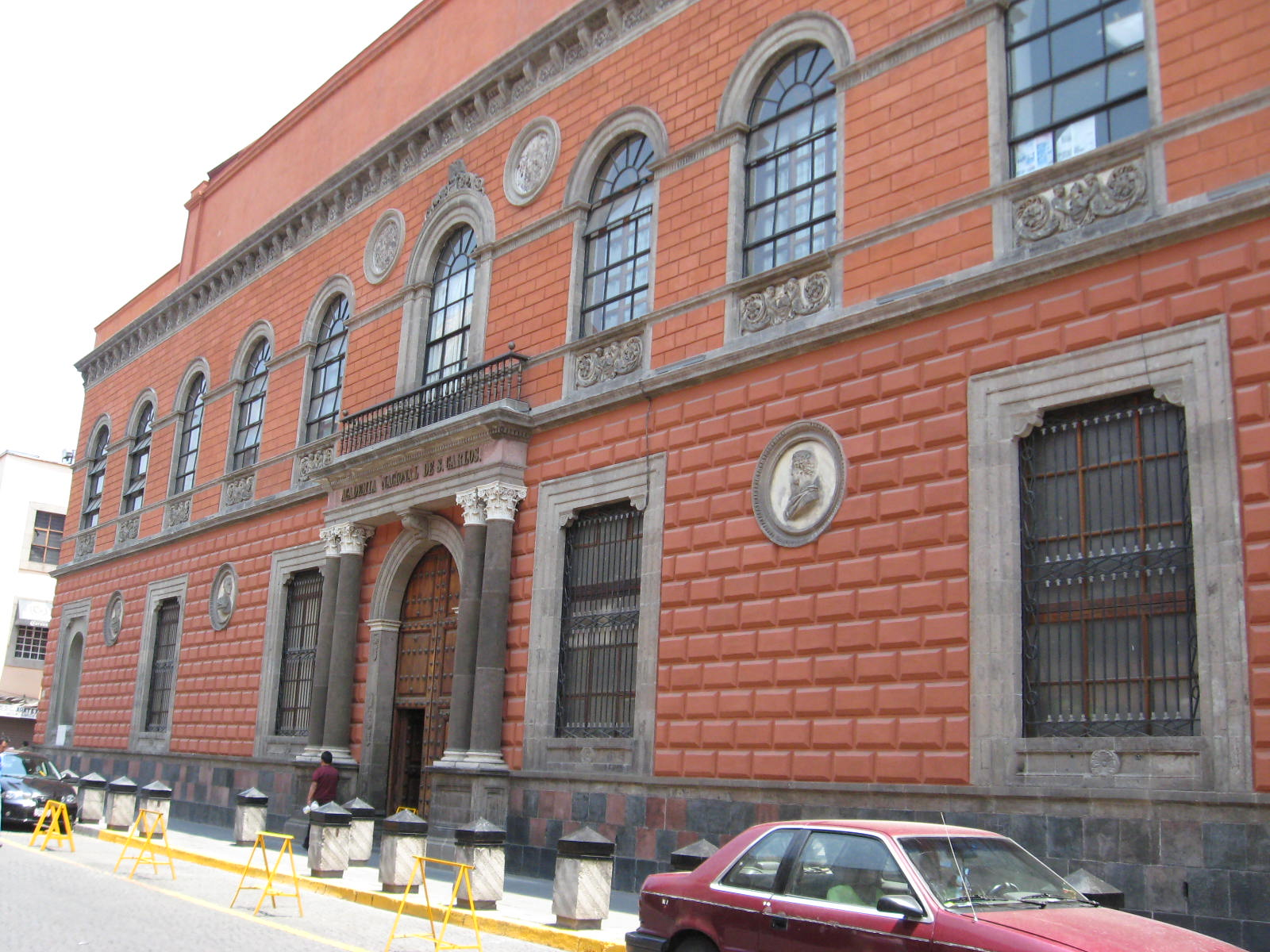 Front facade of the Academy of San Carlos on Academia Street in the historic downtown of Mexico City